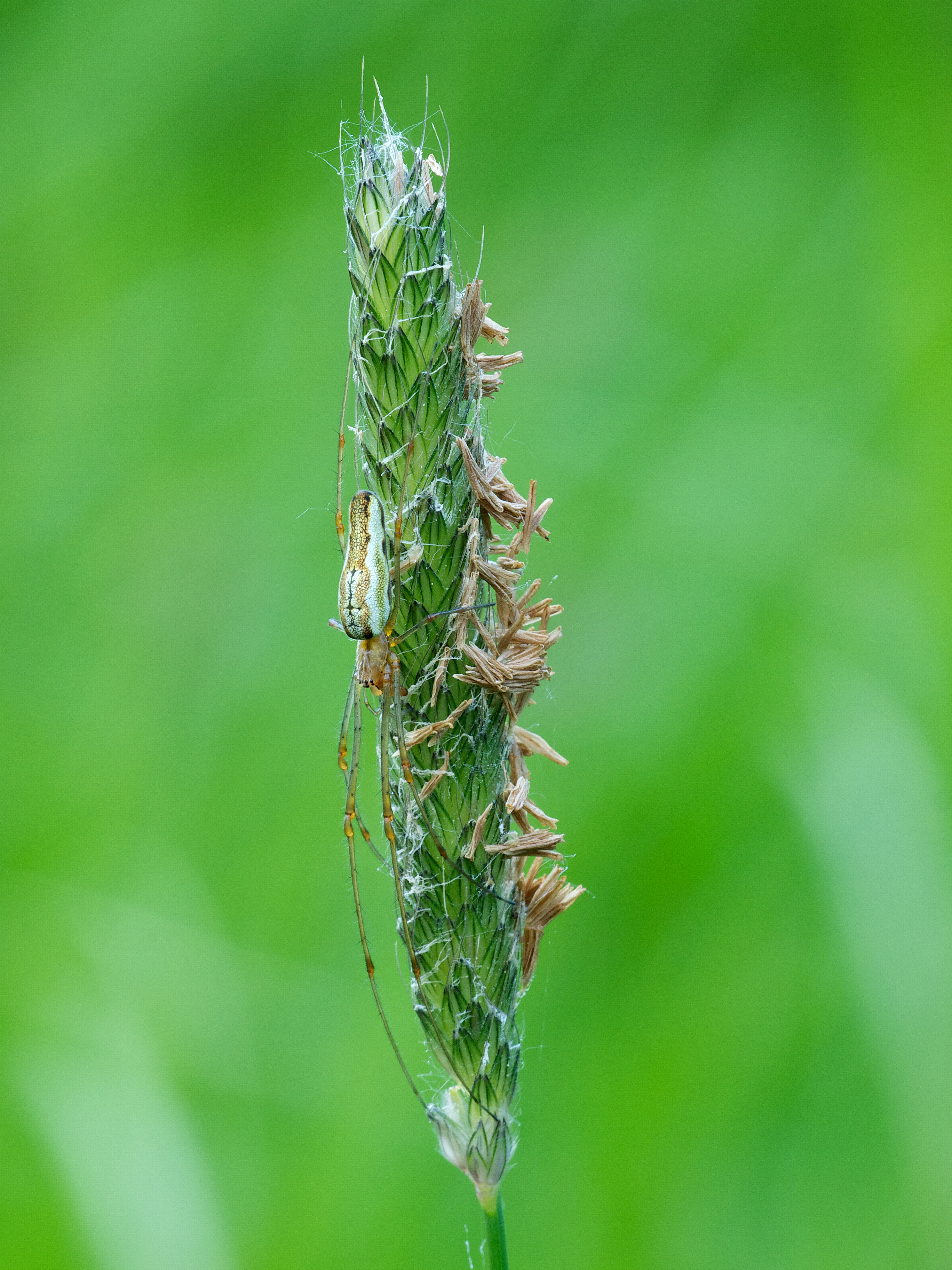 Tetragnatha extensa (female)